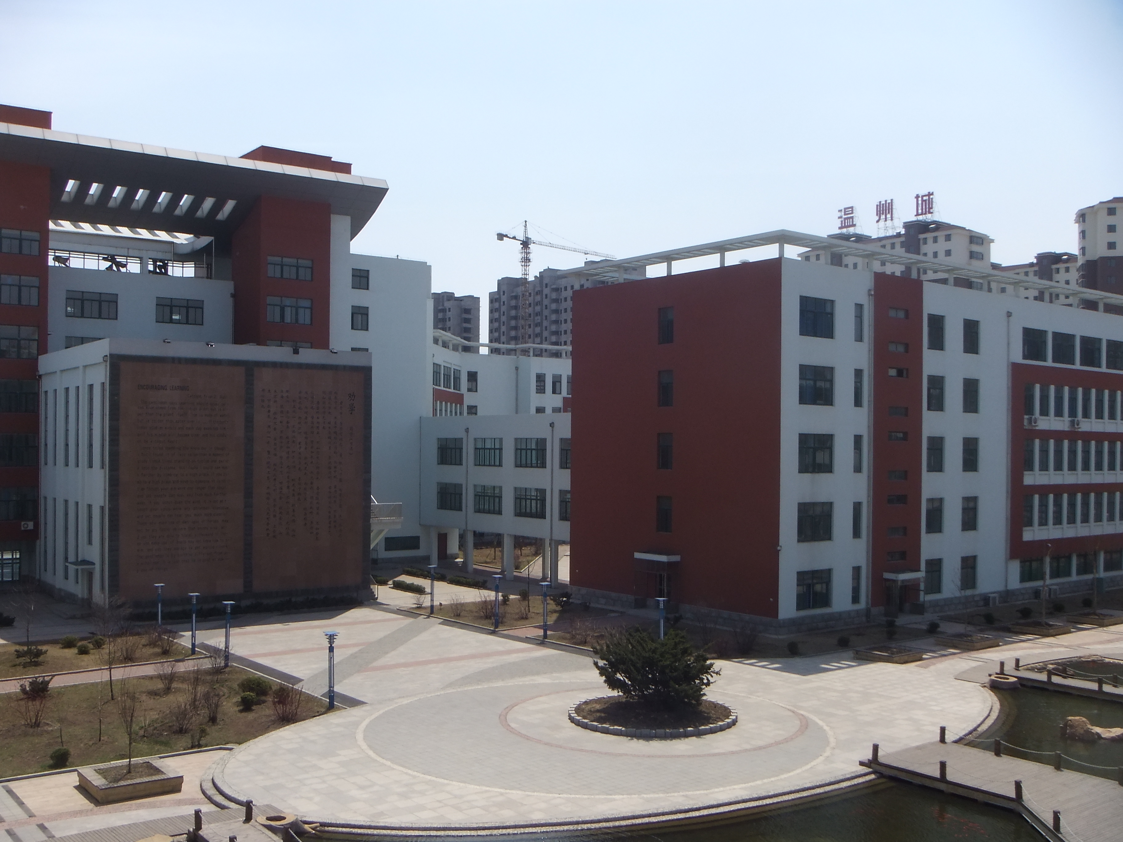 Bird view of Dandong No.2 High School taken from the Library.